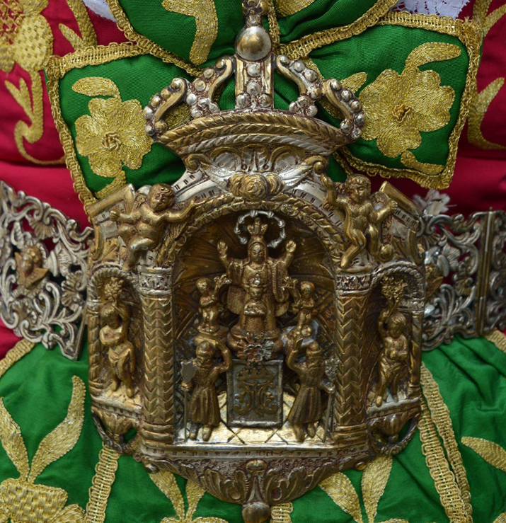 Arbëreshë costume from Piana degli Albanesi, Sicily - belt buckle